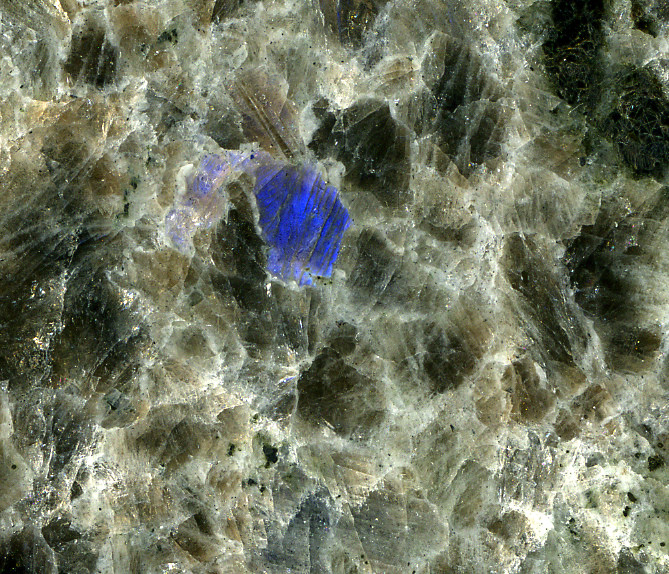 Blue Eyes Granite - a coarsely-crystalline anorthosite from Labrador. All of the lightish to darkish gray material in this rock is labradorite - every crystal will flash bright blue when tilted at the correct angle in the light. This expensive decorative stone comes from the Ten Mile Bay Quarry, near the town of Nain along the Labrador coast, eastern Canada. The quarry exploits the Nain Anorthosite (Nain Plutonic Suite), a mid-Mesoproterozoic intrusion (1.29 to 1.35 billion years) emplaced along the Abloviak Shear Zone. Anorthosites are uncommon intrusive igneous rocks almost exclusively composed of Ca-rich plagioclase feldspar. There’s usually a blackish pyroxene component as well. Anorthosites having labradorite plagioclase feldspar will display a wonderfully colorful iridescent play of colors (labradorescence). This makes them desirable decorative stones.